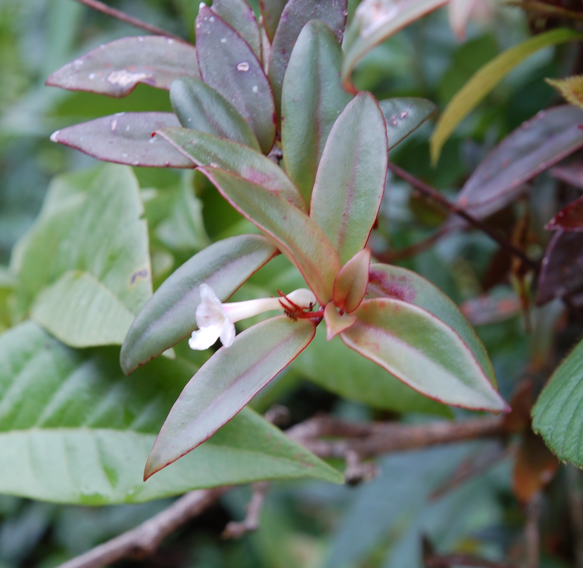 Franch Guiana, 17 March 2009